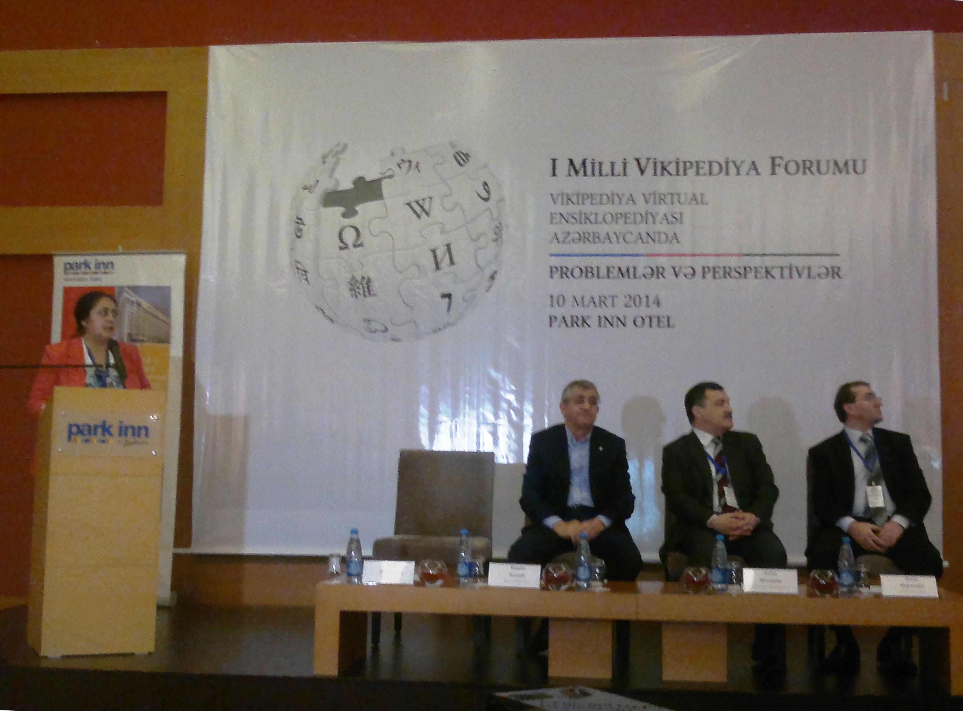 National Wikipedia Forum in Baku, Azerbaijan.